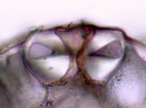 Cross section of Helleborus stoma